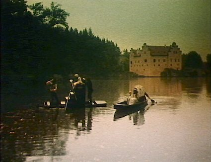 The manor of Zedlitz in Kramow